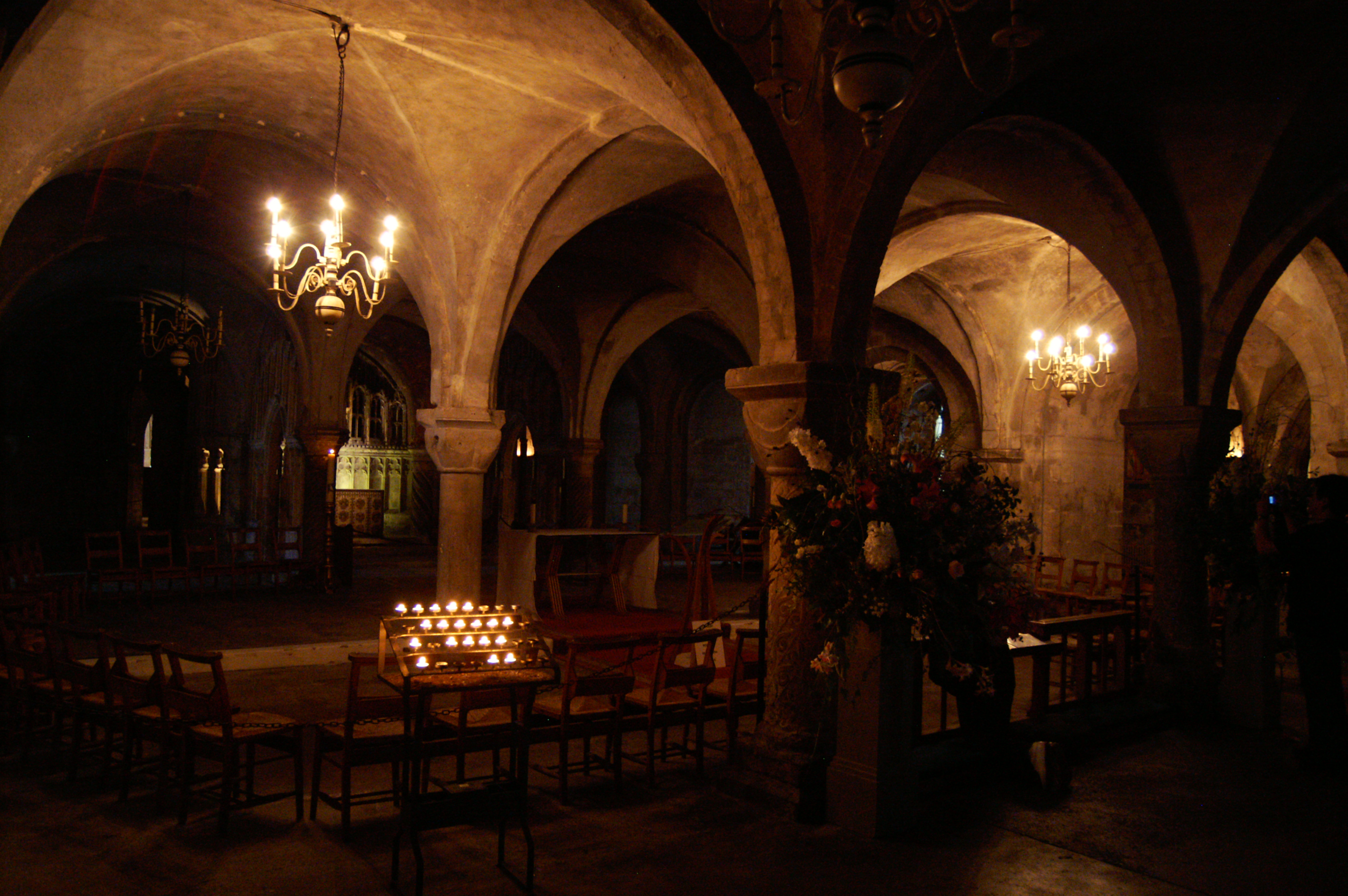 (2007/08/02 Canterbury, Kent, England, UNITED KINGDOM) /* UNESCO World Heritage */ Canterbury Cathedral, St. Augustine's Abbey, and St. Martin's Church (1988) 世界遺産「カンタベリー大聖堂、聖オーガスティン大修道院と聖マーティン教会」